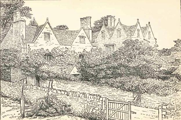 Pen and ink drawing by Edmund Hort New of Kelmscott Manor